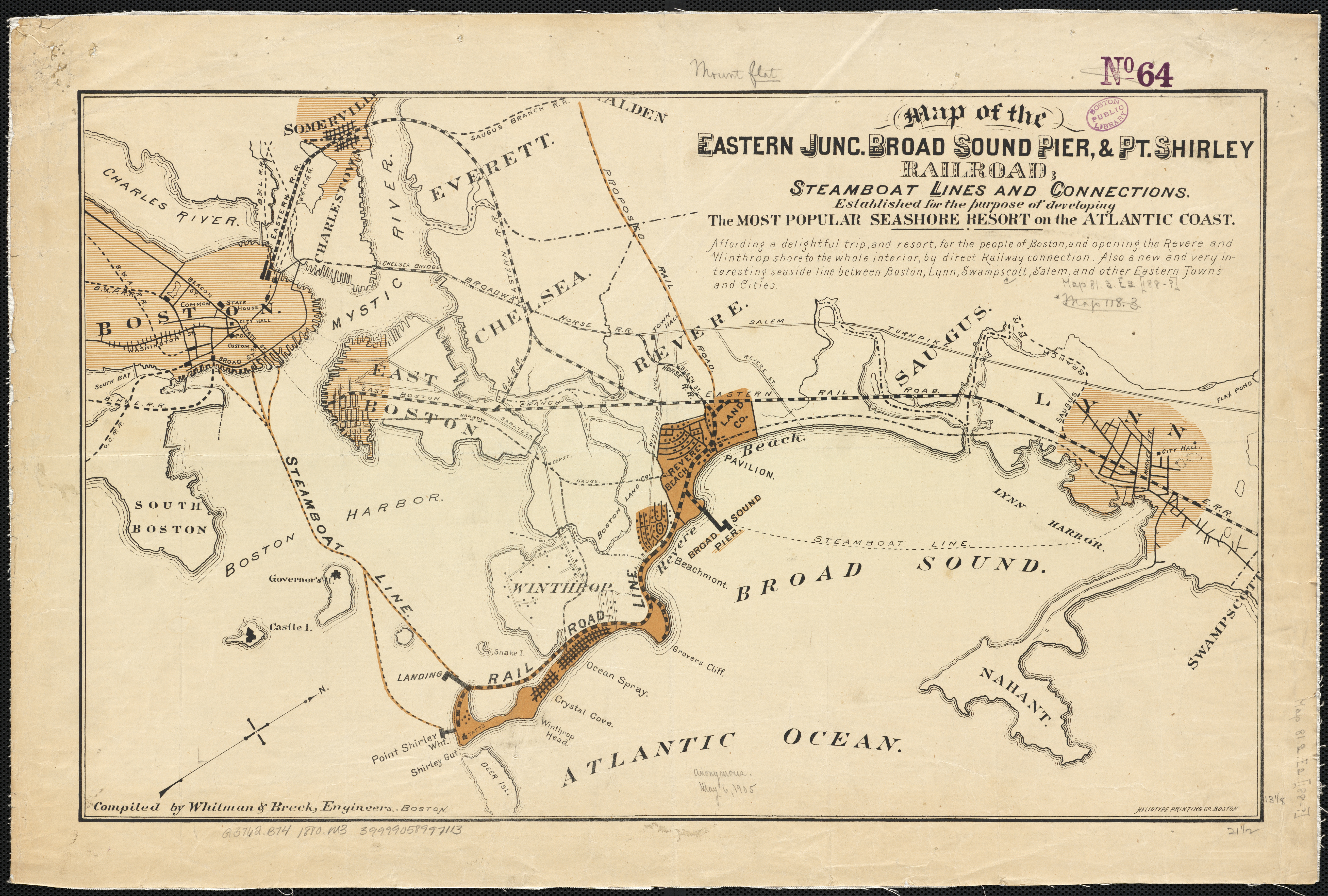 1880 map of the Eastern Junction, Broad Sound Pier and Point Shirley Railroad, as proposed. As built, the line ran east of Cottage Hill on a trestle shared with the Boston, Winthrop and Point Shirley Railroad, rather than to the west on a new embankment as shown here.